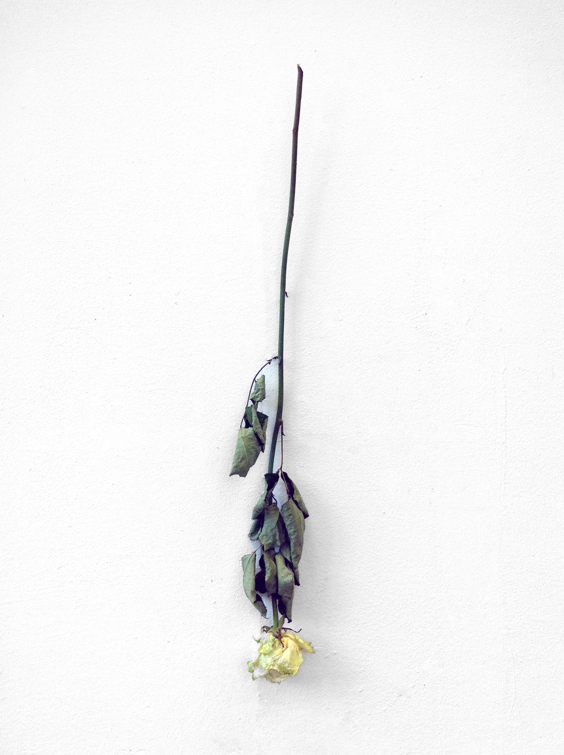 A dried rose hanging upside down